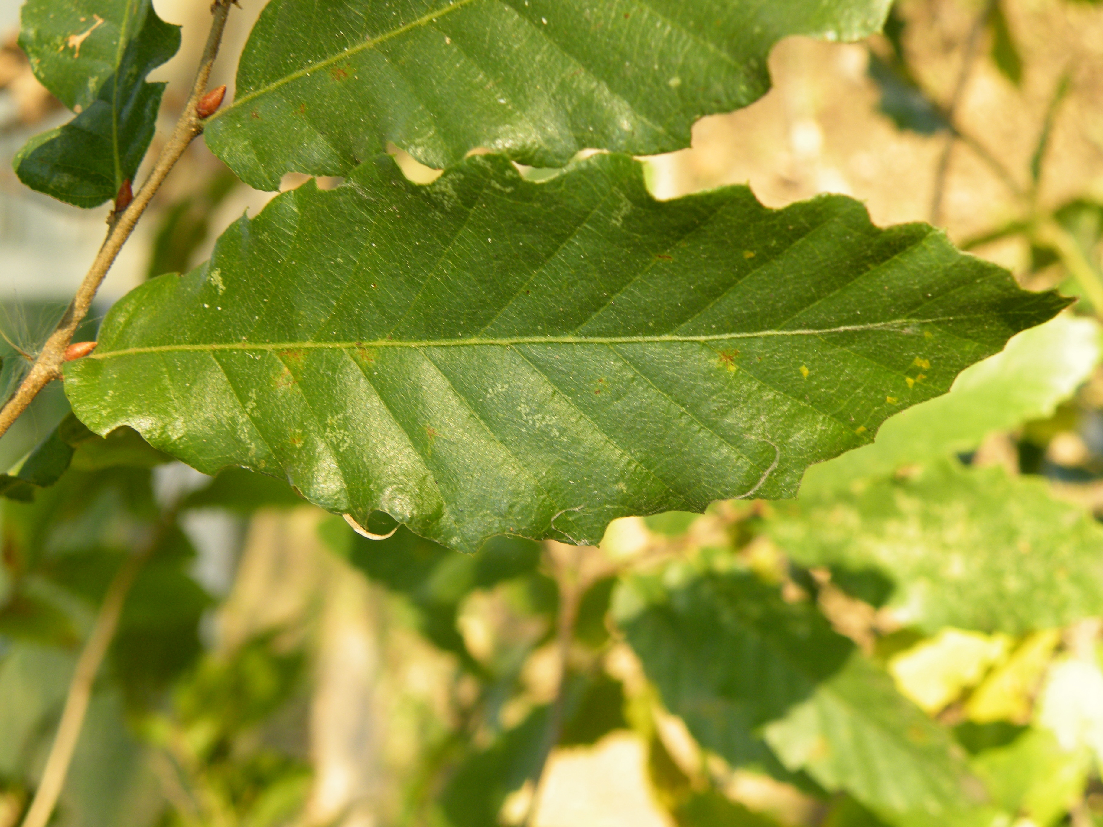 Macedonian oak (Quercus trojana ) is a small to medium-sized tree reaching 10–25 m tall, late deciduous to semi-evergreen, with grey-green leaves 3–7 cm long and 1.5–4 cm broad with a coarsely serrated margin with sharply pointed teeth. The acorns are 2–4 cm long when mature about 18 months after pollination, and largely enclosed in the scaly acorn cup. This media file is produced by Wikipedian in Residence in Botanical Garden Jevremovac in 2015.